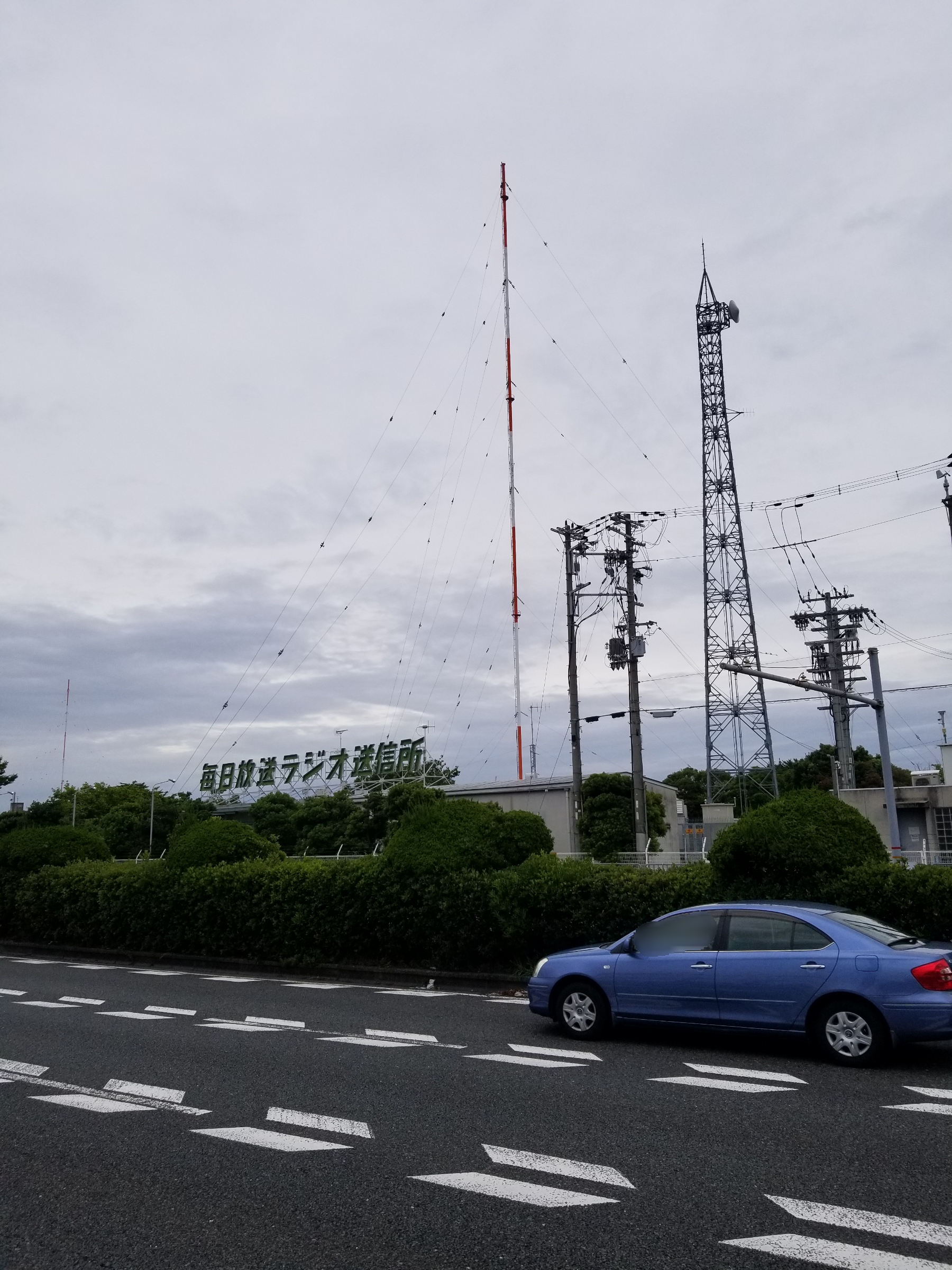 MBS Radio Takaishi Transmitting Station (JOOR 1179kHz 50kW)